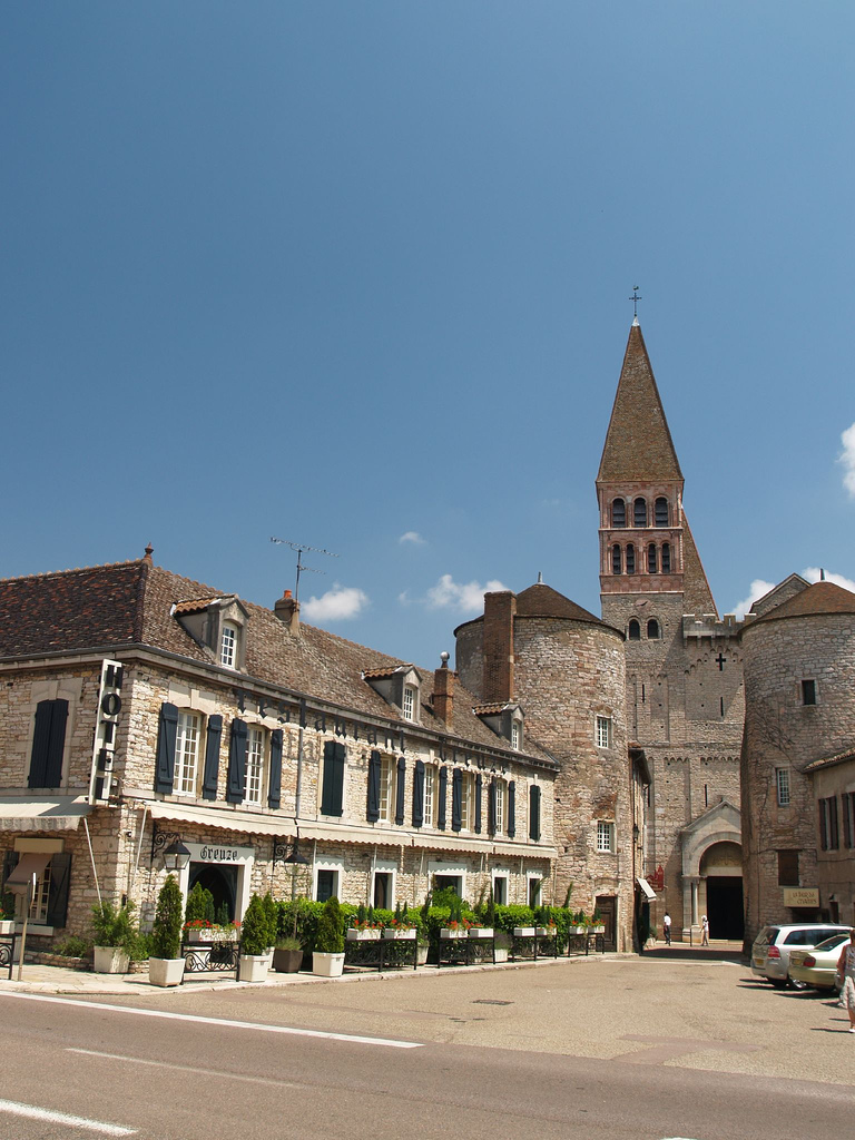 Restaurant Greuze in Tournus, France